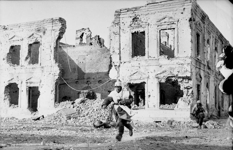 Information added by Wikimedia users.